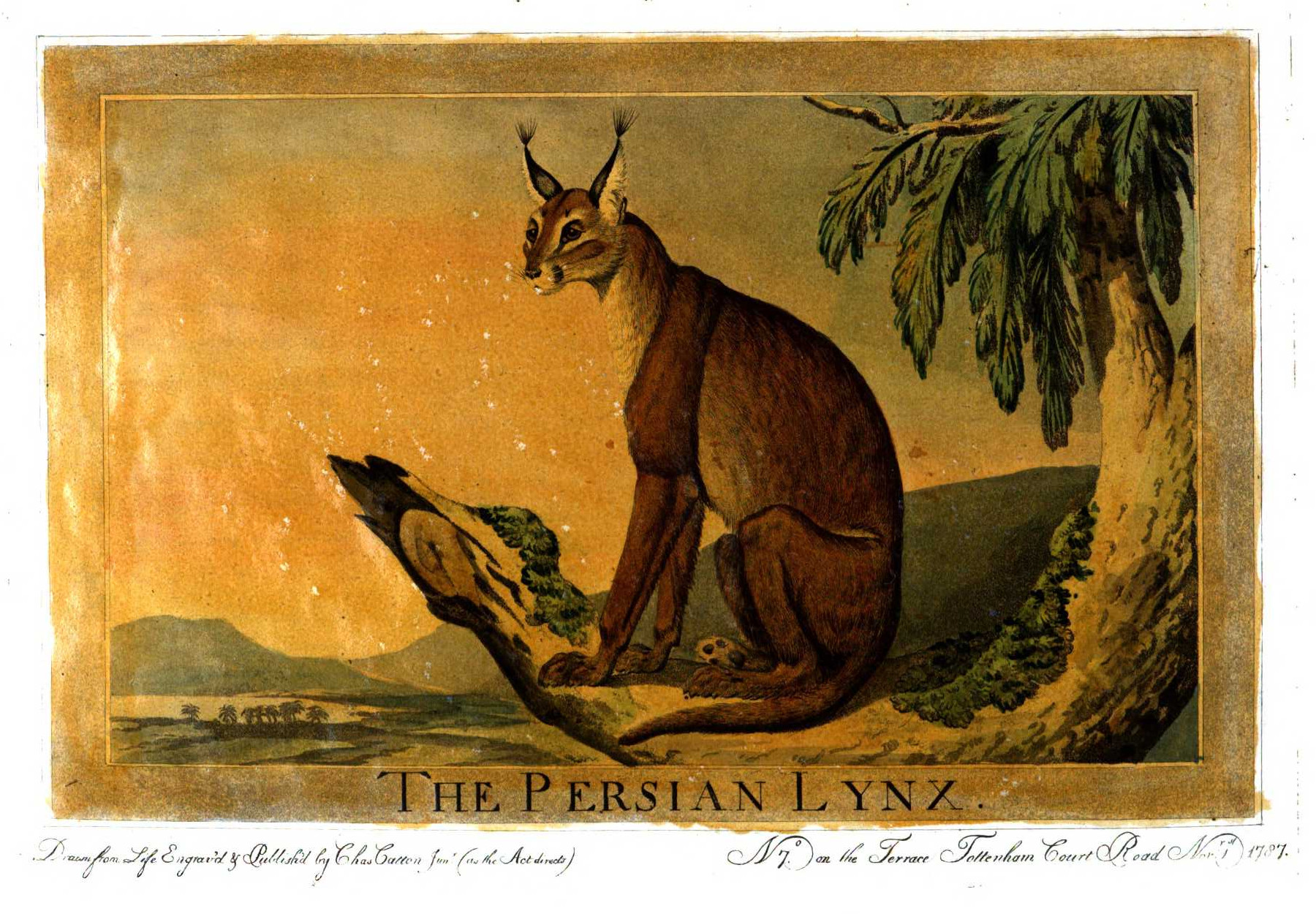 Illustration from Charles Catton the Younger Animals drawn from nature and engraved in aqua-tinta